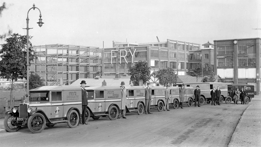 J. S. Fry & Sons' Somerdale Factory, Keynsham, near Bristol, at about the opening of the chocolate factory.